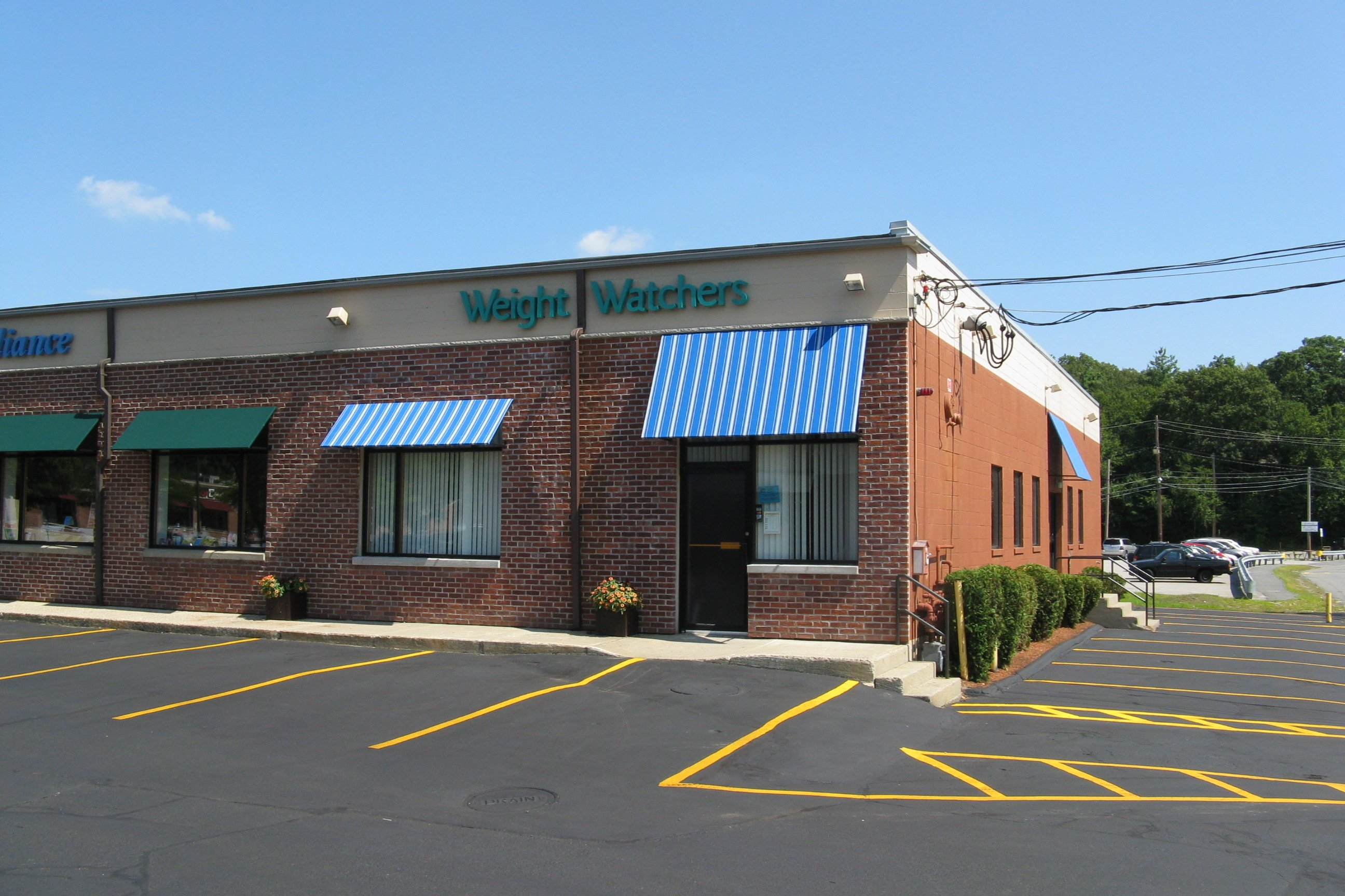 Weight Watchers Center, Newton Highlands Massachusetts